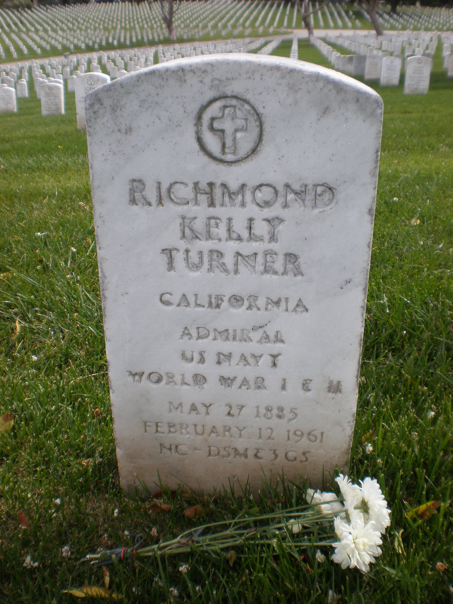 The headstone of Admiral Richmond K. Turner, located at Golden Gate National Cemetery in San Bruno, California.